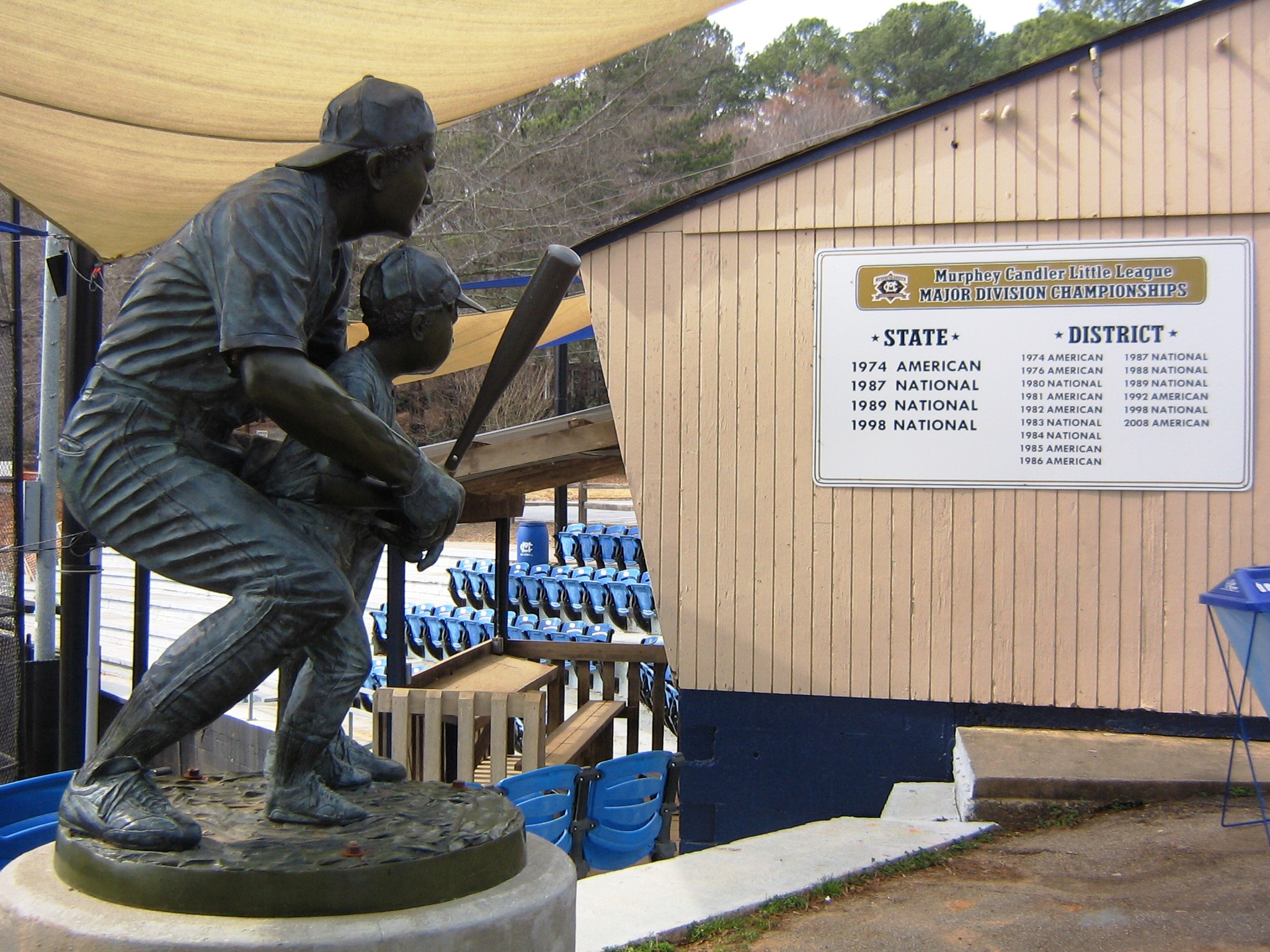 Little League statue at Murphey Candler Park — in Brookhaven (Atlanta), Georgia.